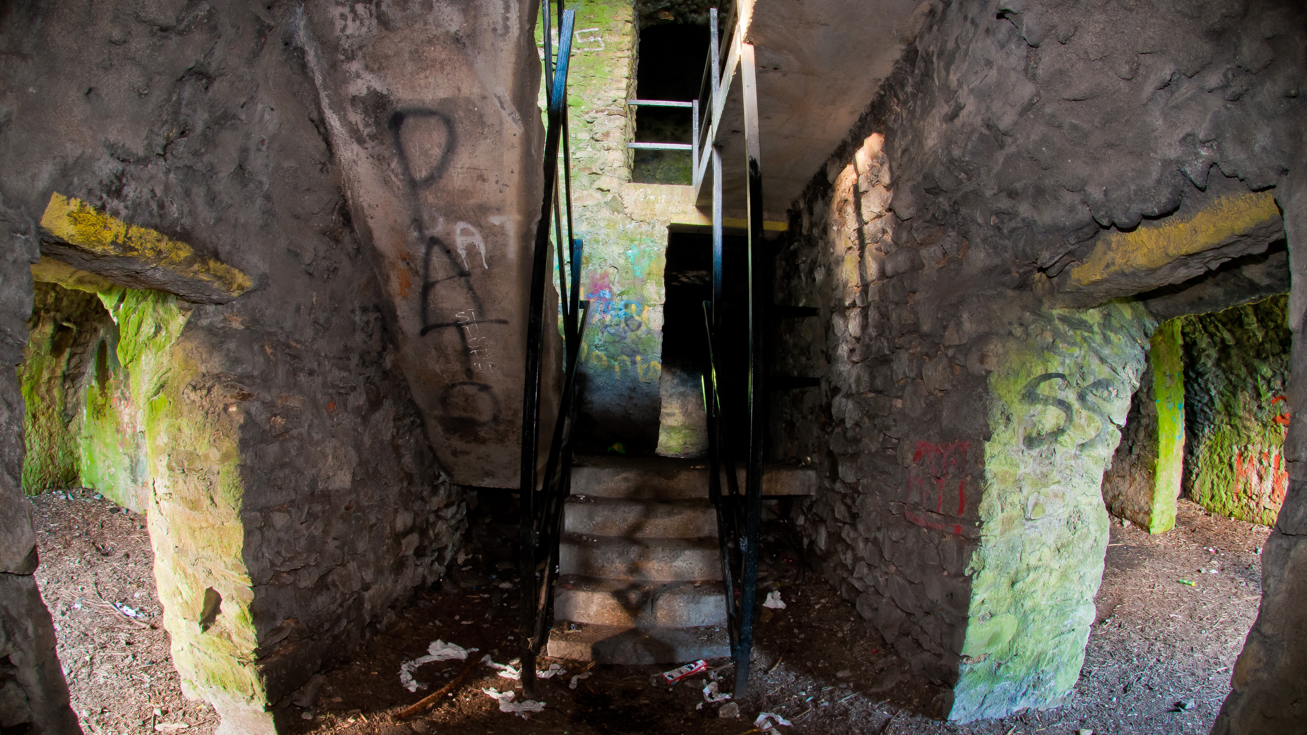 Fisheye image of the stairs leading from the kitchen and servants' quarters to the upper floor of the Hell Fire Club on Montpelier Hill, Dublin, Ireland